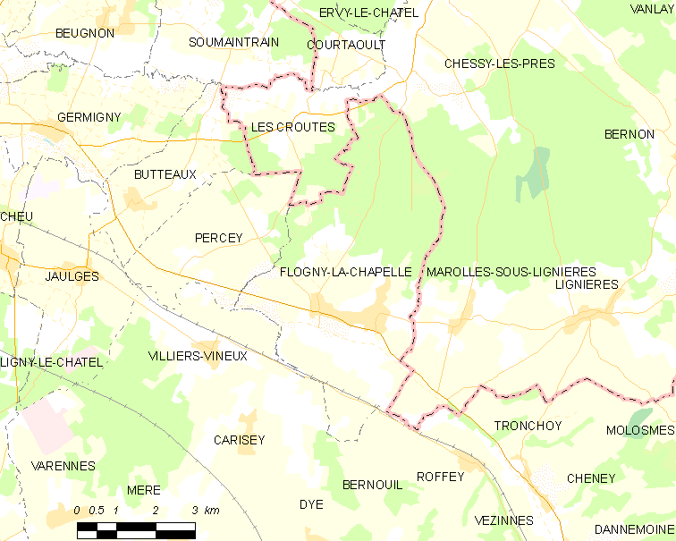 Map of French municipality Flogny-la-Chapelle